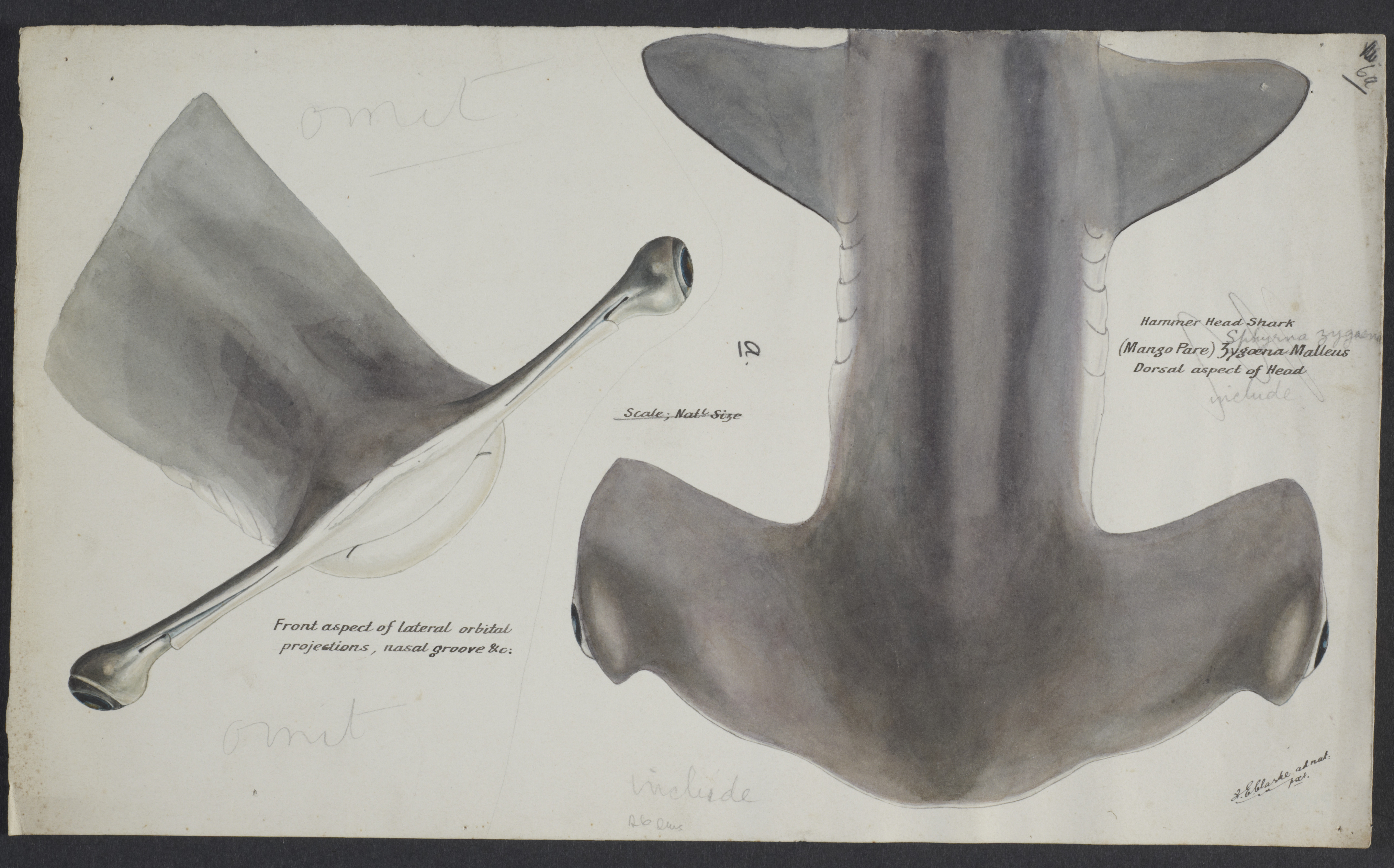 Sphyrna zygaena (NZ) - Hammerhead shark, head dorsal aspect, 1898, by Frank Edward Clarke. Purchased 1921. Te Papa (1992-0035-2278/112)